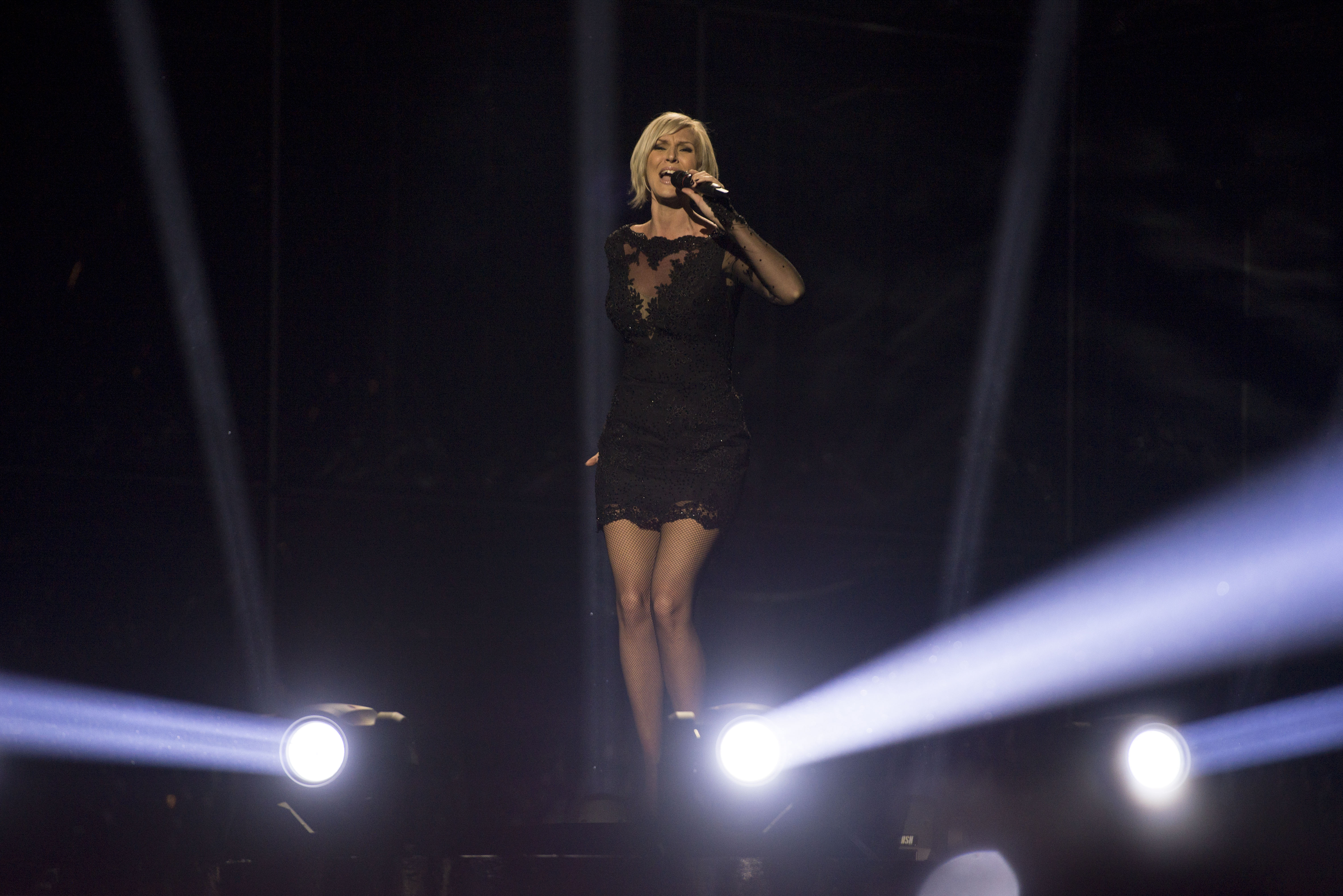 Sanna Nielsen representing Sweden with the song "Undo" during the first dress rehearsal of the first semi final of the Eurovision Song Contest 2014 Copenhagen. (Help translate this text)